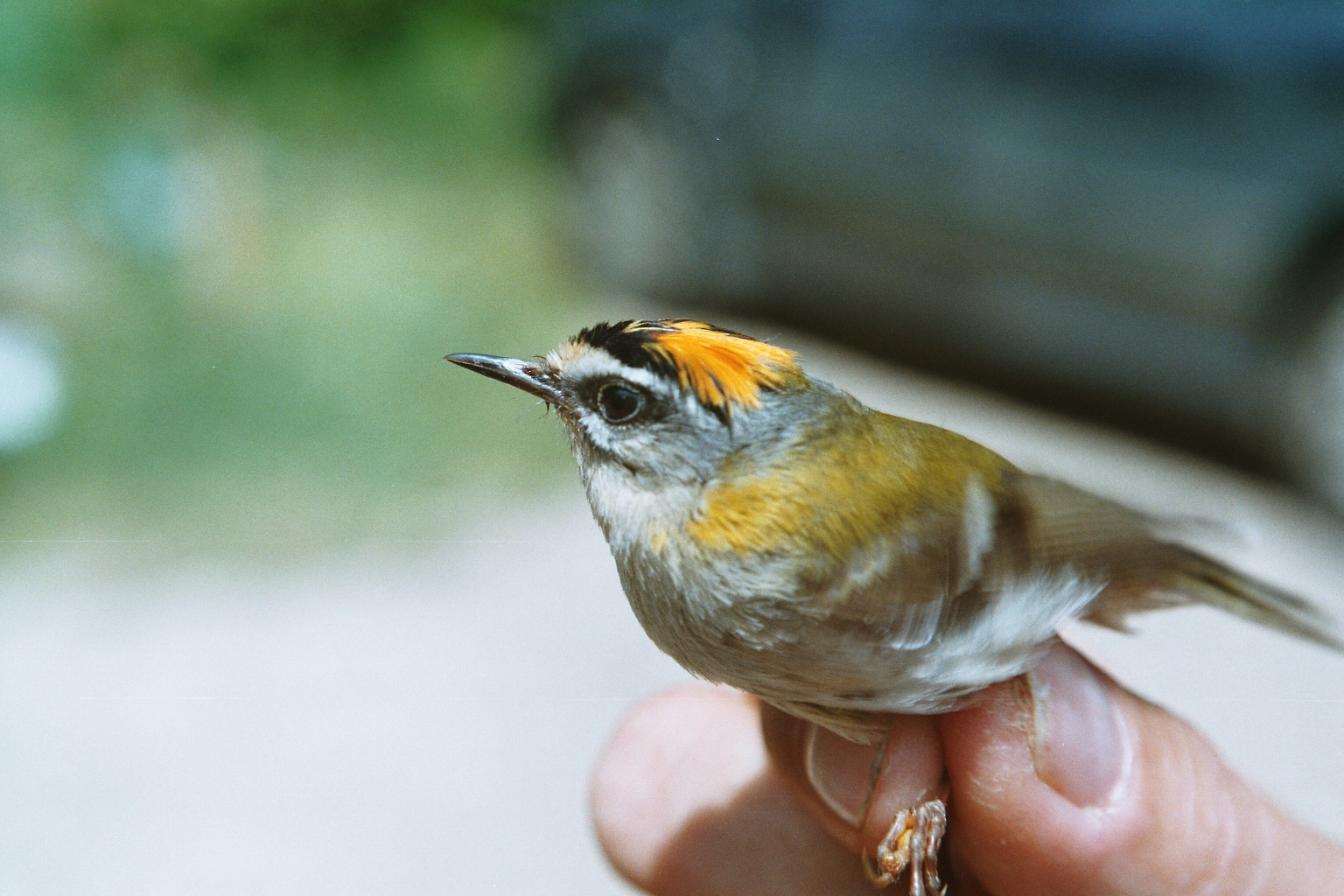 Regulus ignicapillus, Benešov nad Černou, South Bohemian Region, Czech Republic